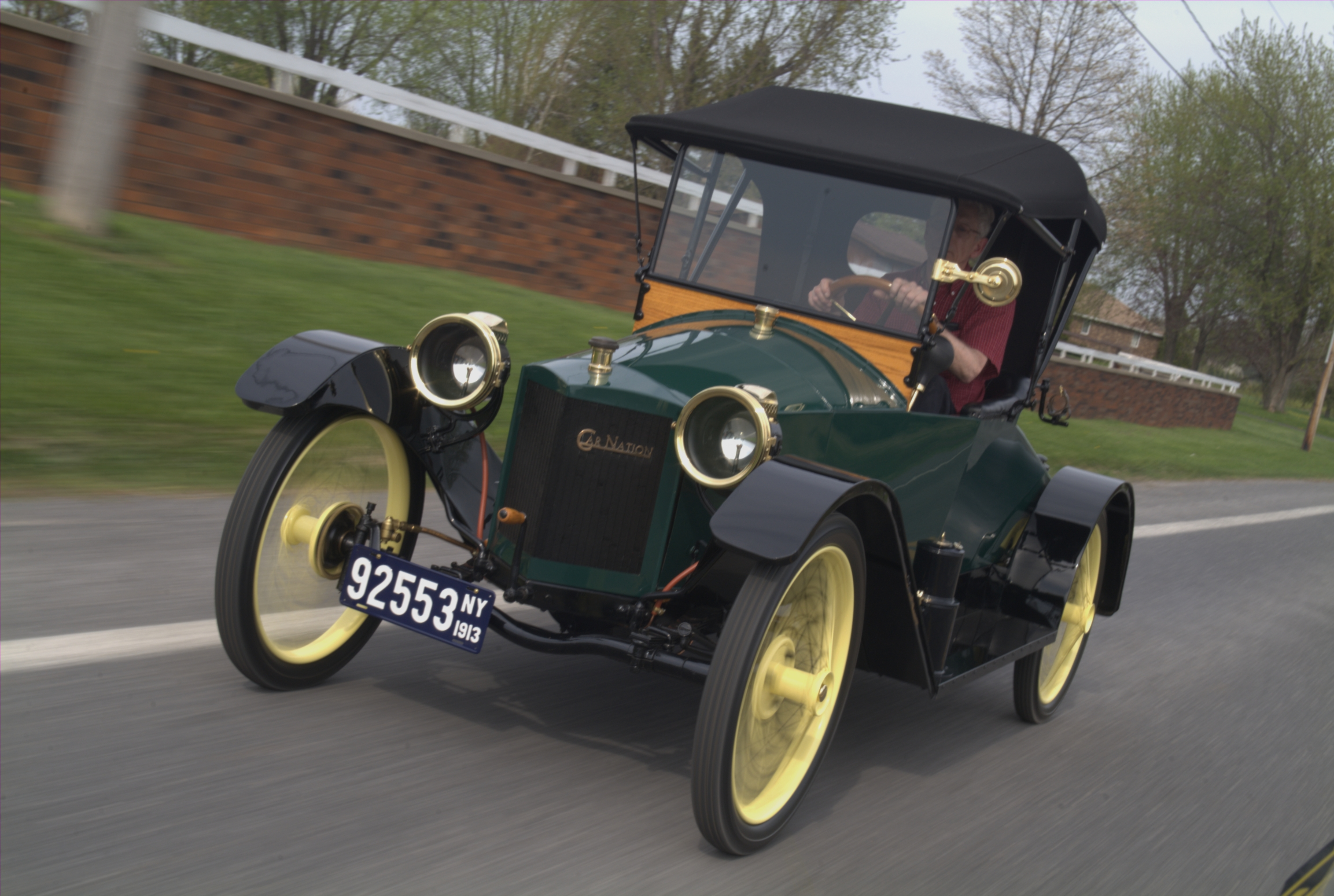 Action photo of 1913 Car-Nation roadster